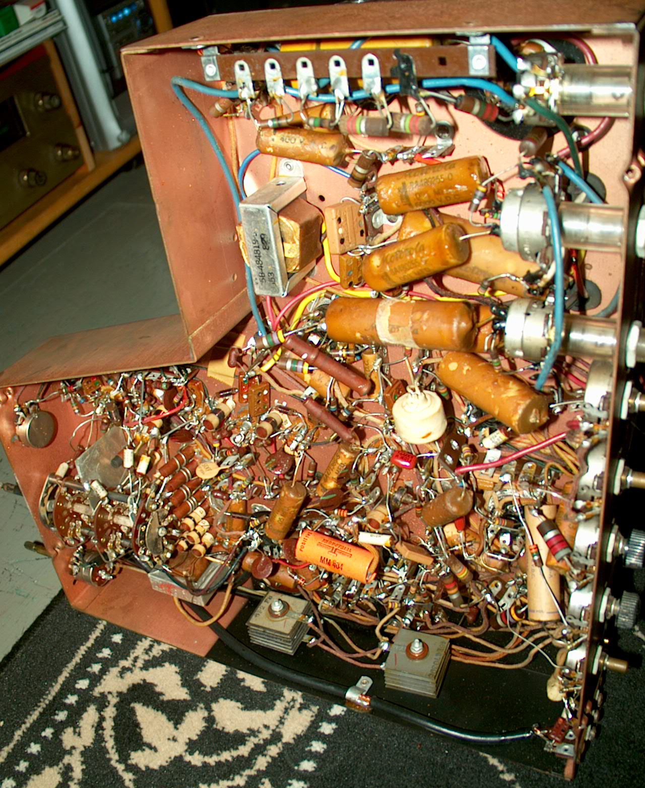 View of the underside of a chassis of a 1948 Motorola VT-71 "Golden View" 7" television set.